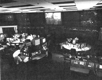 Interior View of the JPL Network Operations Control Center, 1976, during the viking program